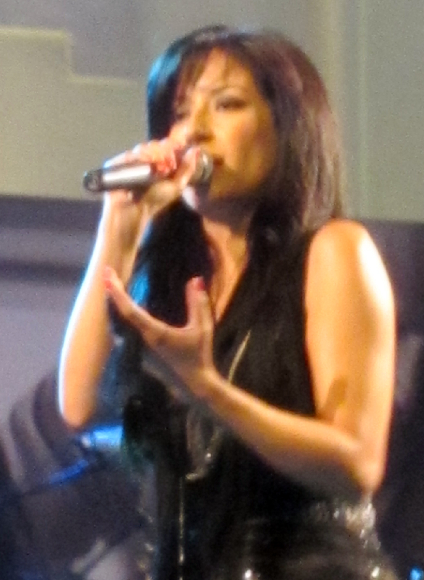 Moura